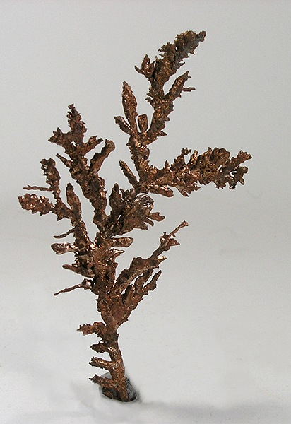 Copper Locality: White Pine Mine, White Pine, Ontonagon County, Michigan, USA (Locality at ) Size: cabinet, 12.3 x 6.8 x 0.1 cm Copper Extremely sharp , flattened crystals forming an elegant fanspray! This is CLASSIC Michigan copper, and for this habit, of flattened crystals, this is a very good specimen with excellent aesthetics 12.3 x 6.8 x 0.1 cm